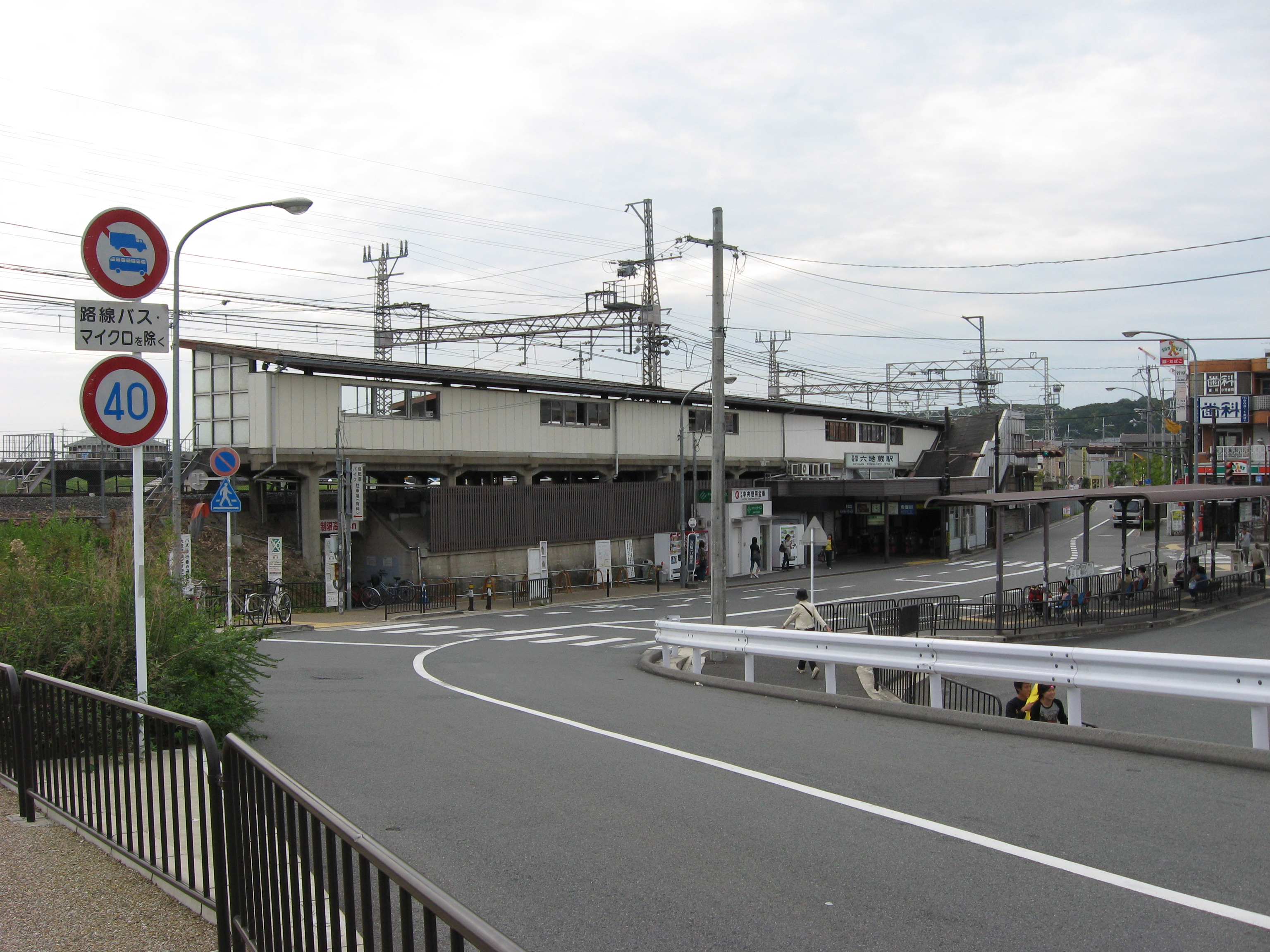 Keihan Rokujizo Station Overview